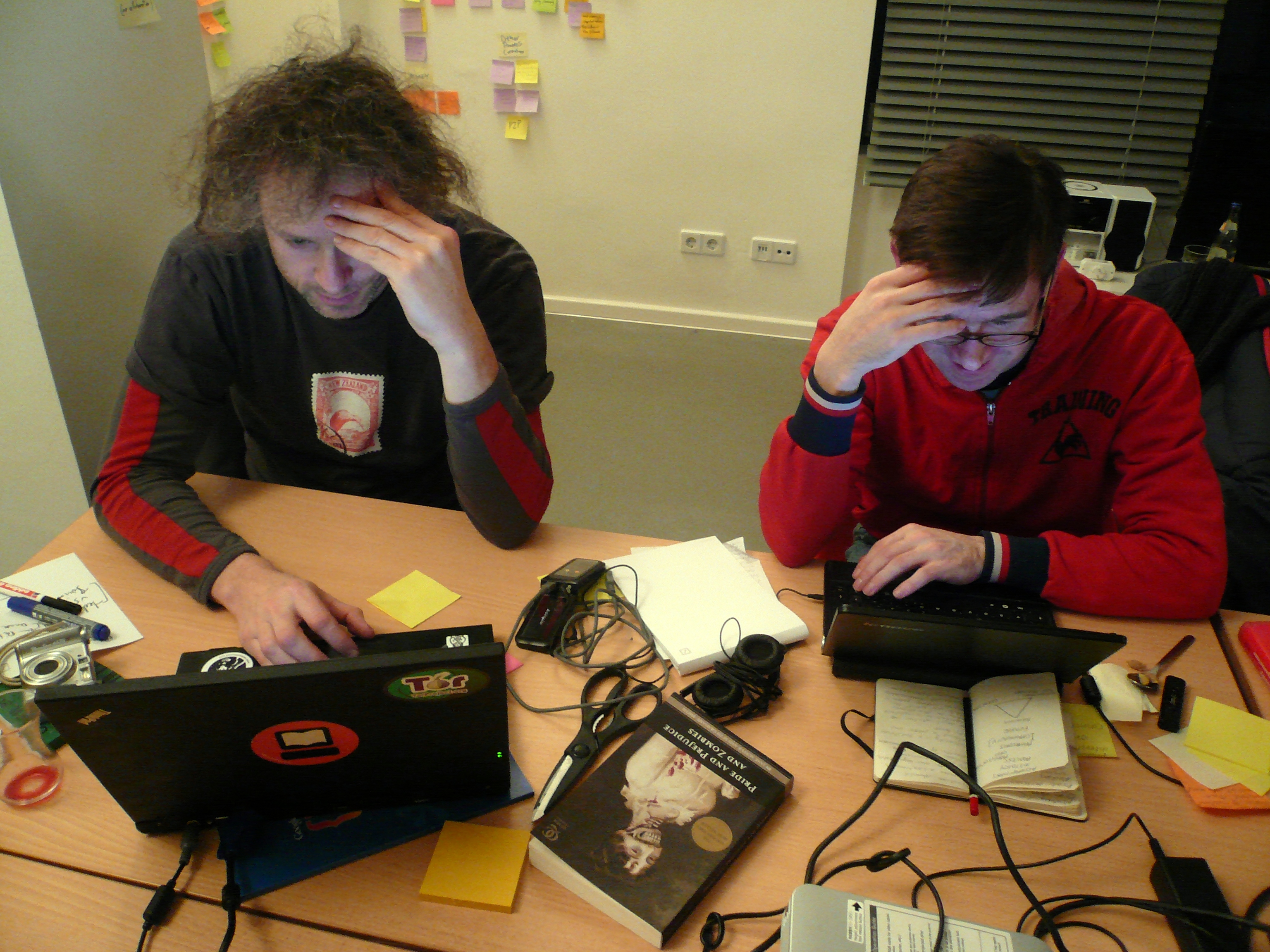 Over 5 days in mid January 2010 the Transmediale festival locked 6 writers and 1 programmer in a Berlin hotel room to collaboratively write a book about the future of free collaboration; the authors started with only the title, and ended the week with a book: The core authors were Adam Hyde, Mike Linksvayer, Michael Mandiberg, Marta Peirano, and Alan Toner.